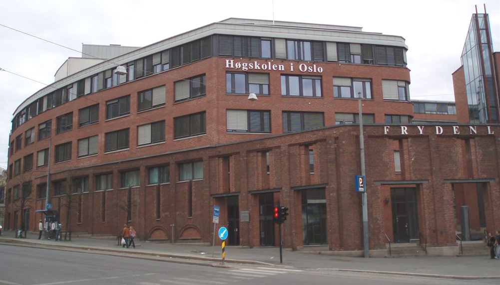 Oslos school of higher education (the Oslo University College)